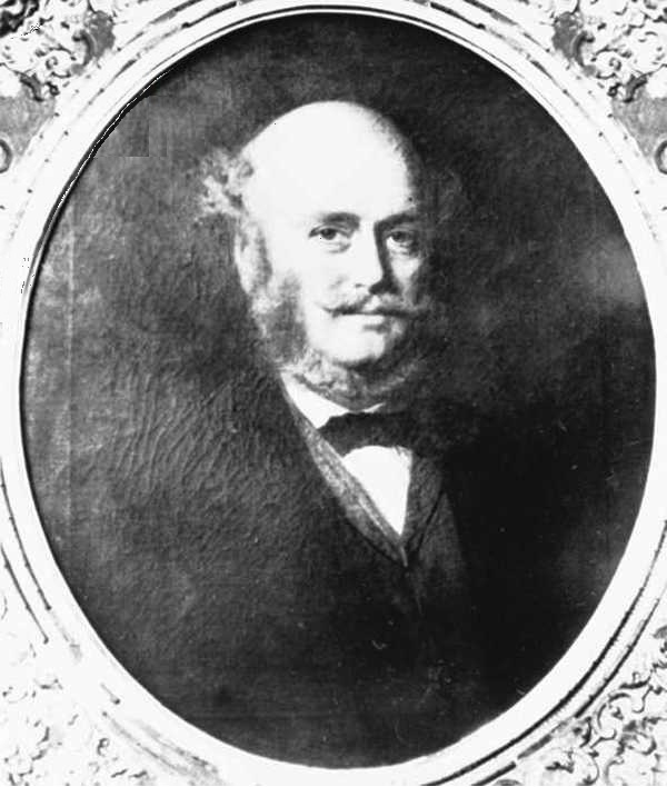 Lieutenant - Col. George Alexander Malcolm, Colonial Secretary, 1843-1844. RID: PH001856 Call No.: 07-02-036 GIS 6102/1 (Negative) 中文（香港）: 麻恭中校，一八四三至一八四四年在任輔政司。 RID: PH001856 Call No.: 07-02-036 GIS 6102/1 (Negative)